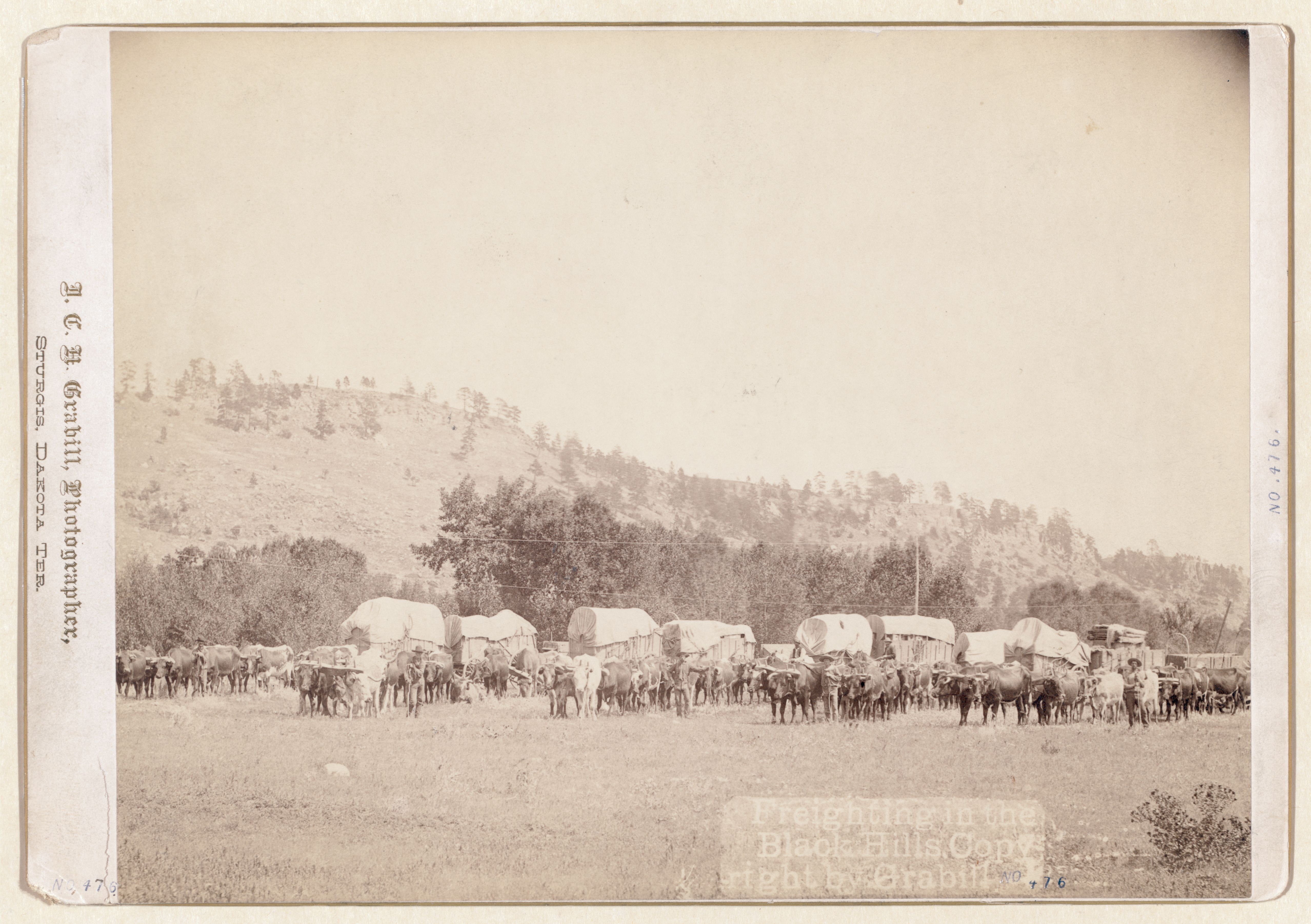 Original title Freighting in the Black Hills Several ox teams and wagons in a valley.